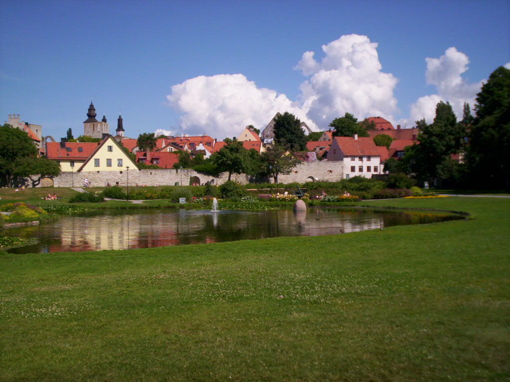 Almedalen (The Elm Valley), the Old Port of Visby